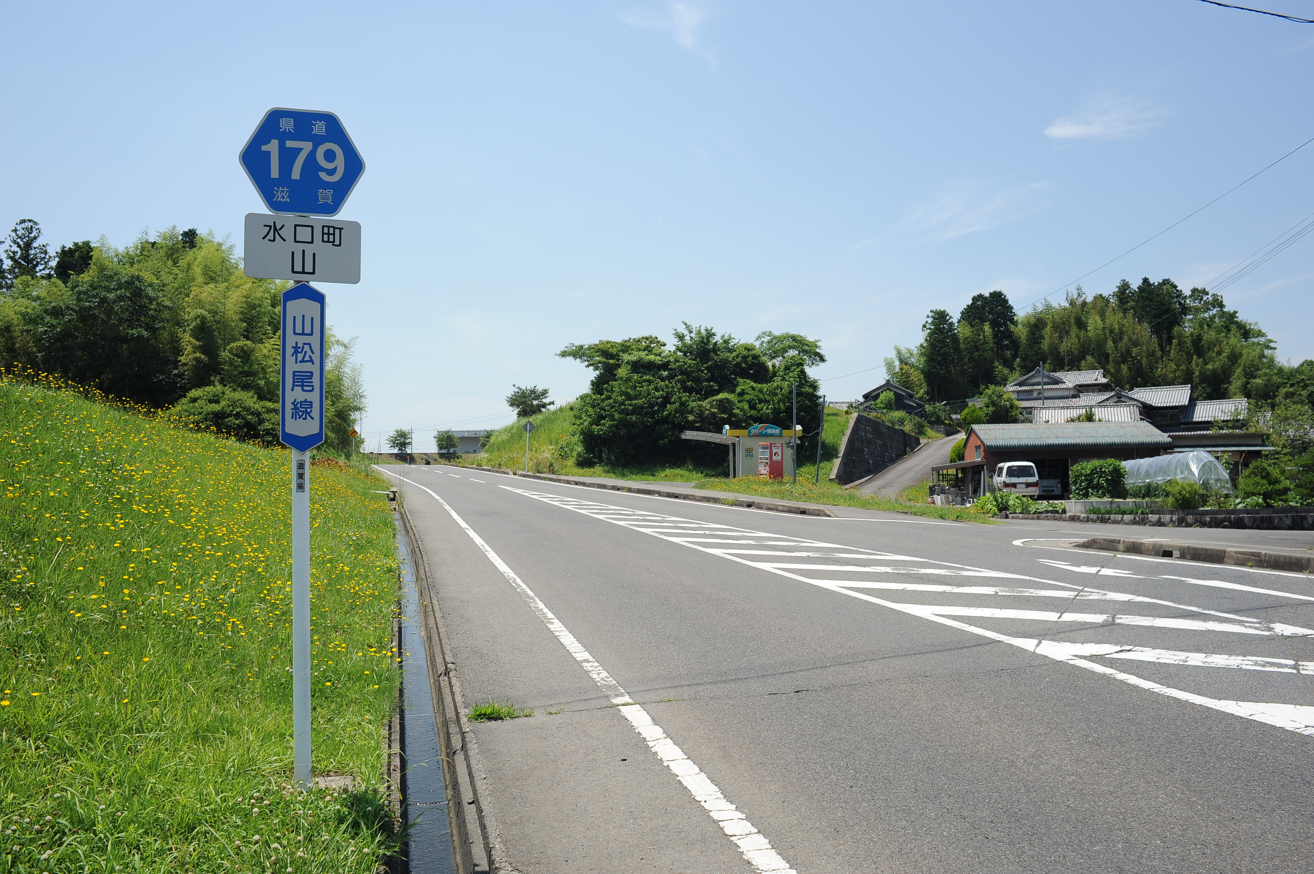 Siga Prefectural Route 179, Koka, Shiga